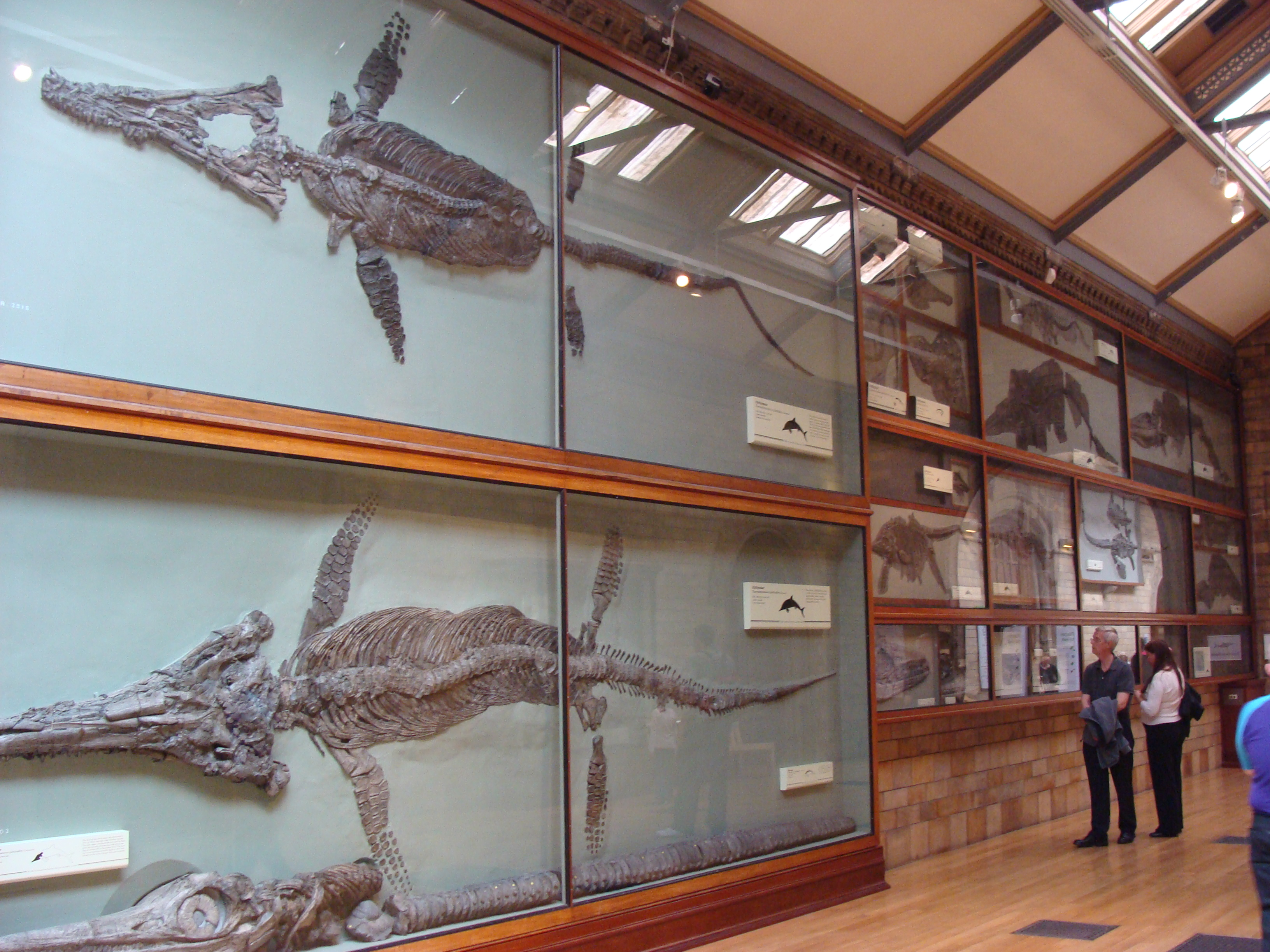 Several Temnodontosaurus in the Natural History Museum of London